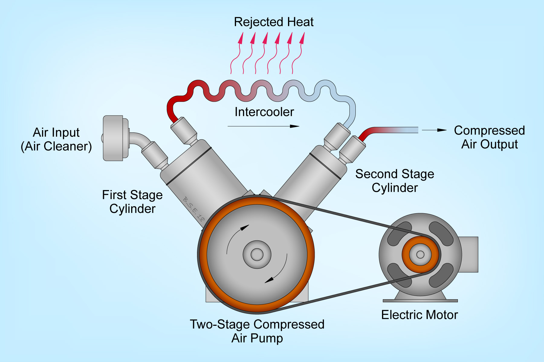 Two-stage compressor pump showing location of the intercooler.